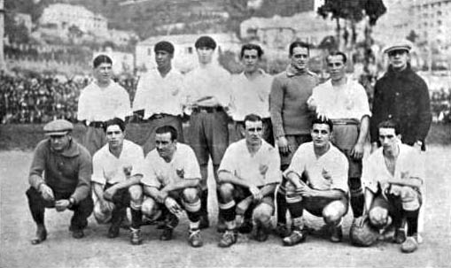 The Club Nacional de Football team during its European tour in Genova, Italy. Genoa Club 0 - 3 Nacional.